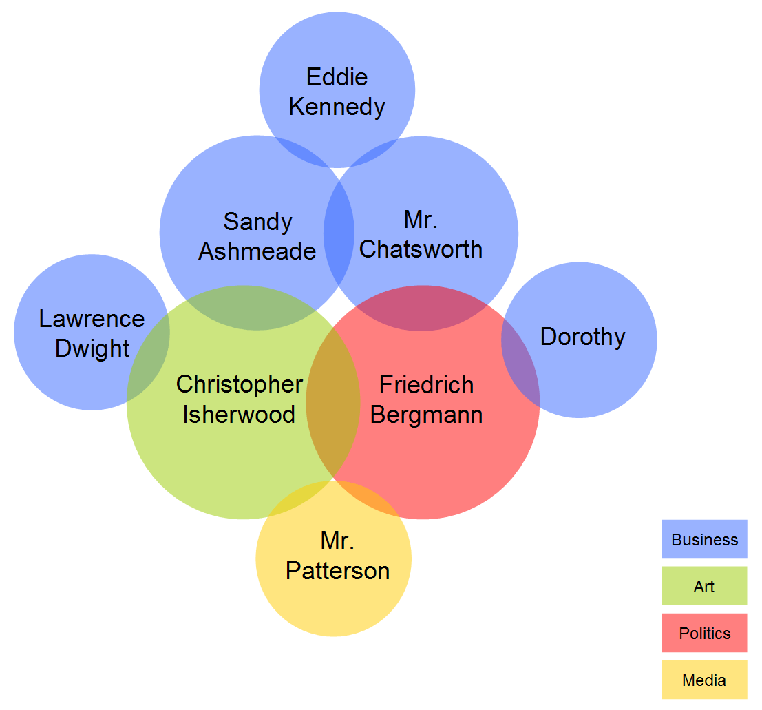 The image represents the social interactions and thematic interdependencies between the characters in Christopher Isherwood's 1945 novel "Prater Violet".